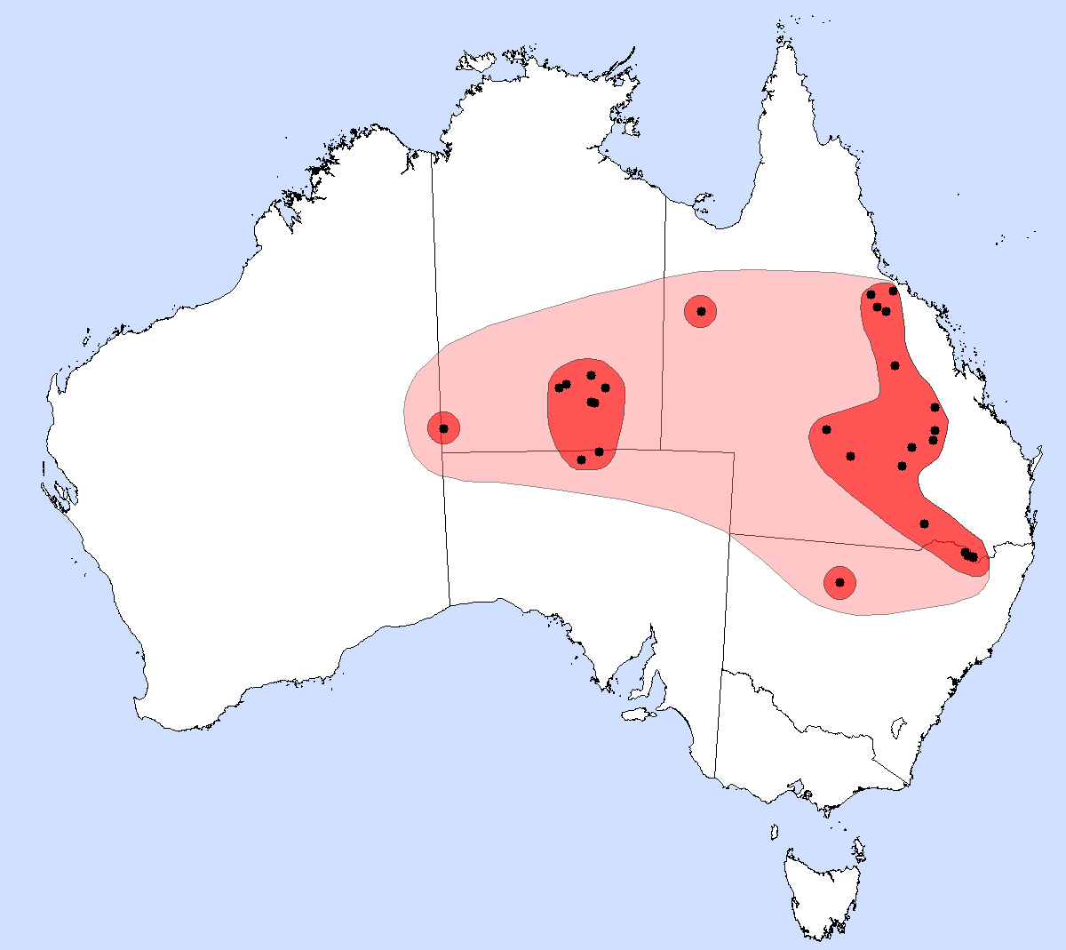 A map of the distribution of the bristle-faced free-tailed bat Other information This file is based on data points supplied with permission of the owner of the original data.